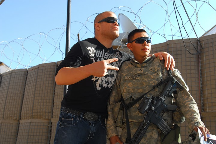 Tito Ortiz, professional mixed martial arts fighter, poses for a picture with Pfc. Dakota Shirley at Patrol Base Minden, Dec. 14 2009.